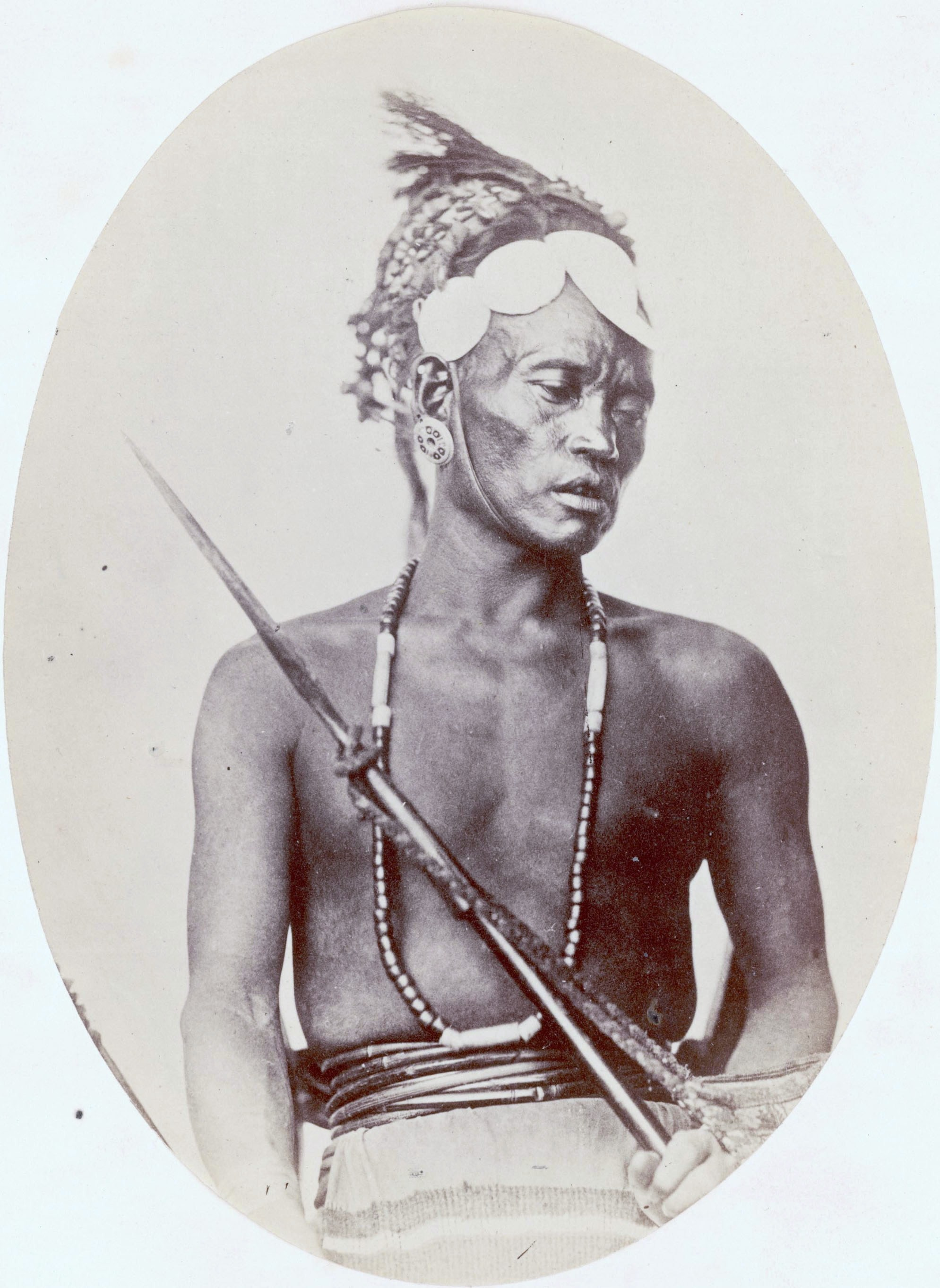 A Rengma man from the Naga hill tribes in Assam, India, circa 1868. (Photo by Hulton Archive/Getty Images)